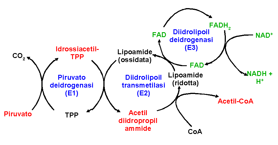 Mechanism of the oxydative decarboxylation of pyruvate into acetilCoA